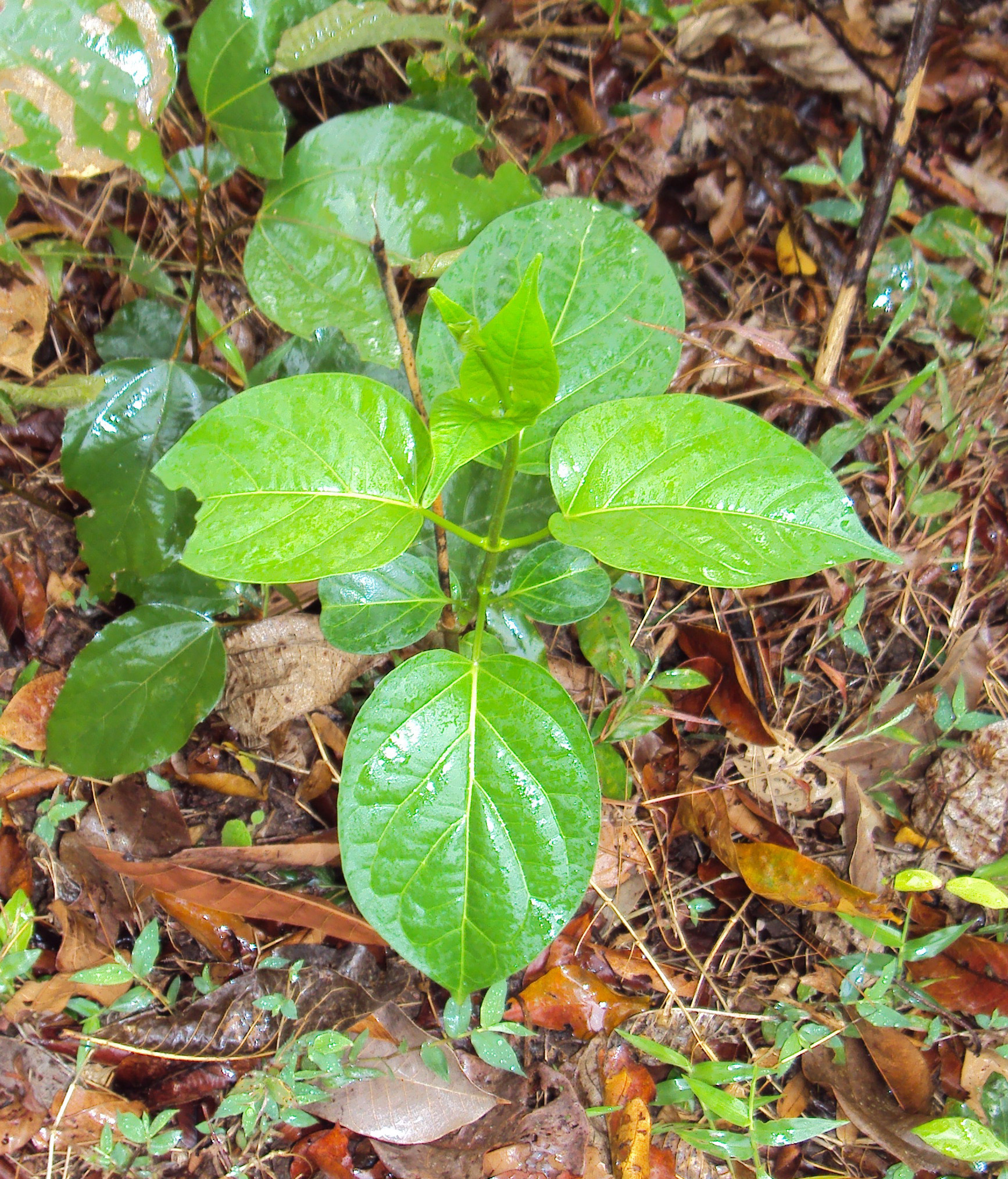 Cosmostigma racemosum